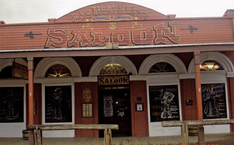 Big Nose Kate's Saloon in Tombstone, Arizona. It was originally called the "Grand Hotel" and was built in 1880. Ike Clanton and two McLaury brothers stayed there the night before the famous OK Corral gunfight. This property is located within the Tombstone Historic District listed in the National Register of Historic Places, ref: 66000171